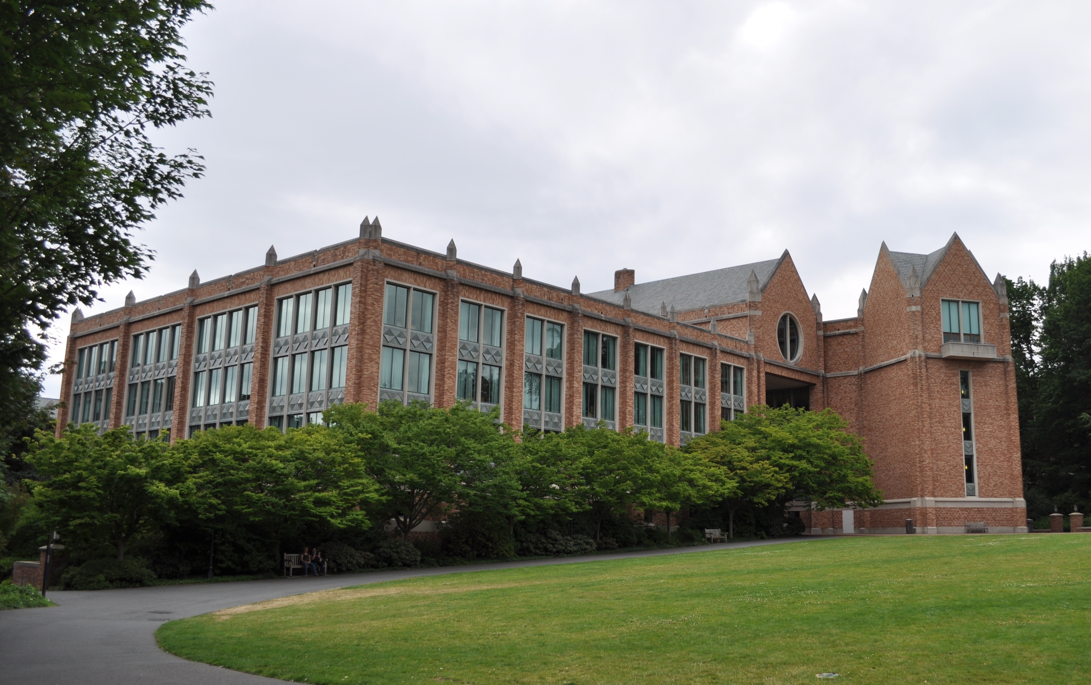 Allen Library, University of Washington, Seattle, Washington.